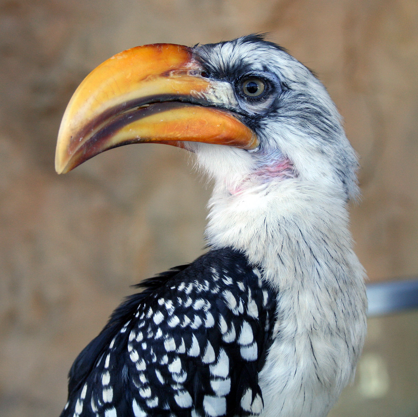 Eastern Yellow-billed Hornbill